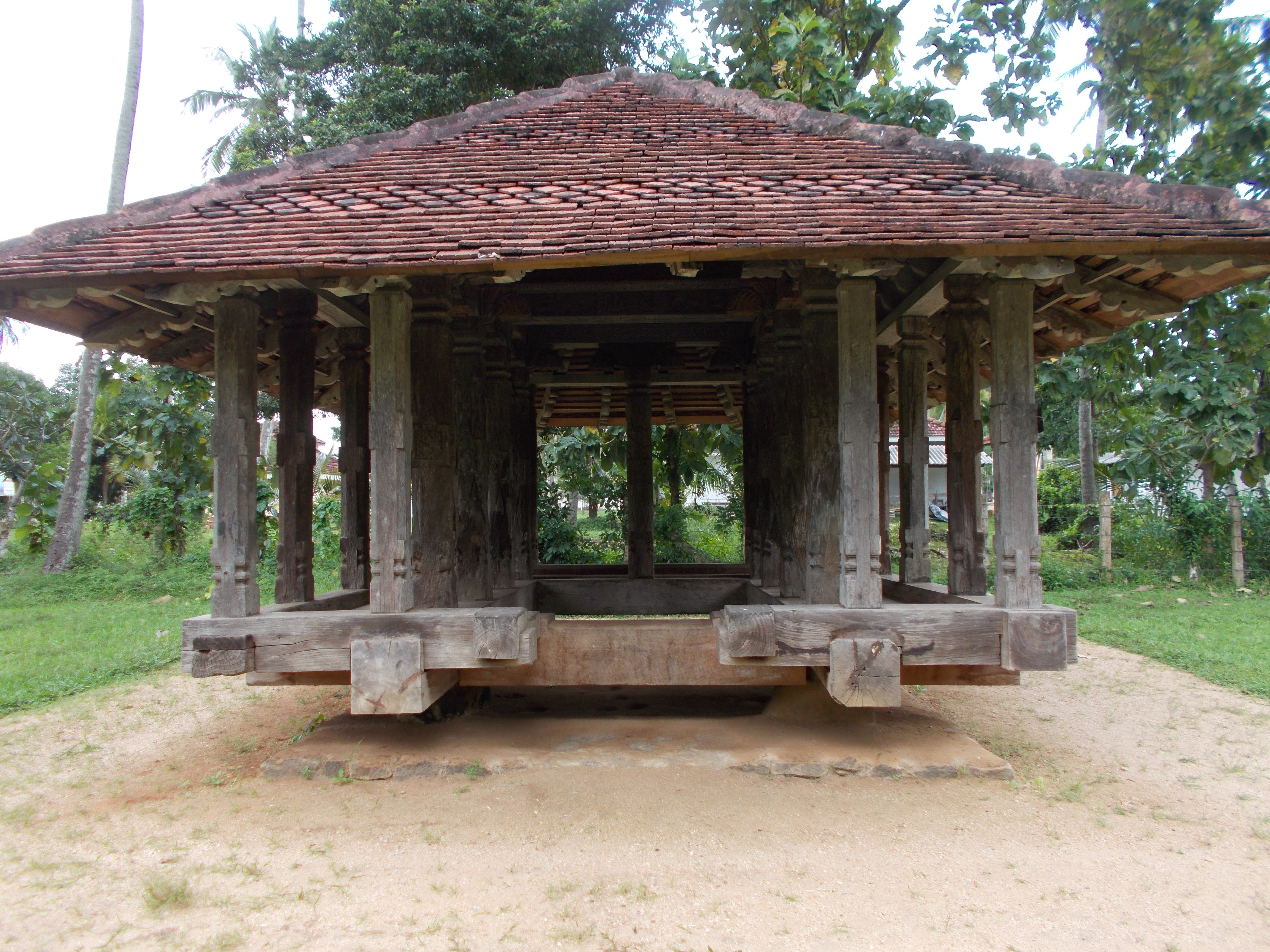 A full frontal view of the Panavitiya Ambalama (පනාවිටිය අම්බලම)